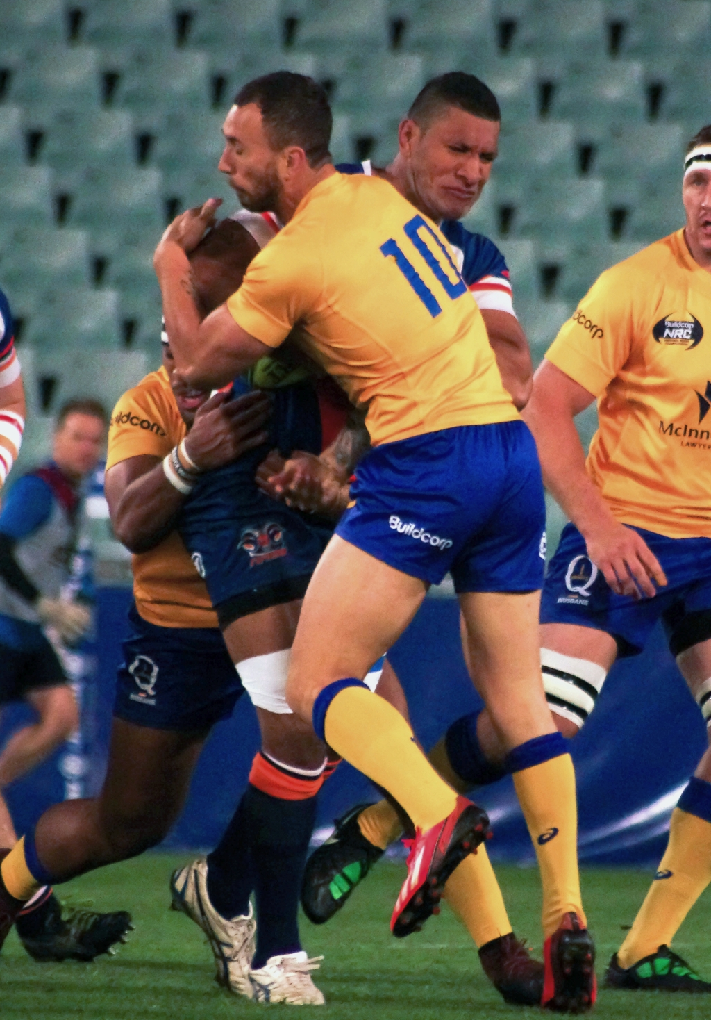 Rugby player Quade Cooper for Brisbane City tackles Steve Mafi of Greater Sydney Rams in the 2014 National Rugby Championship at Parramatta Stadium in Sydney, Australia